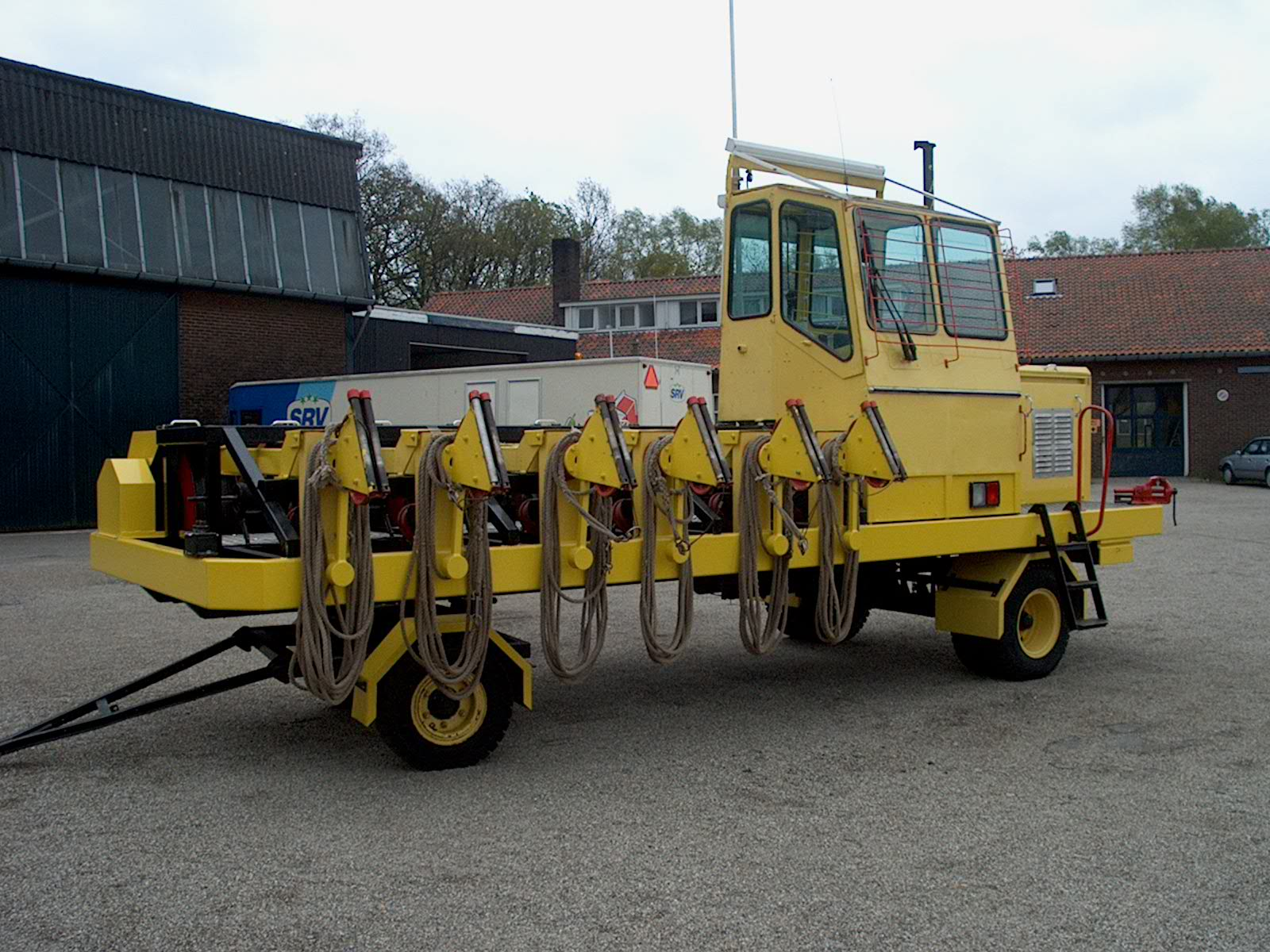 Six drum winch